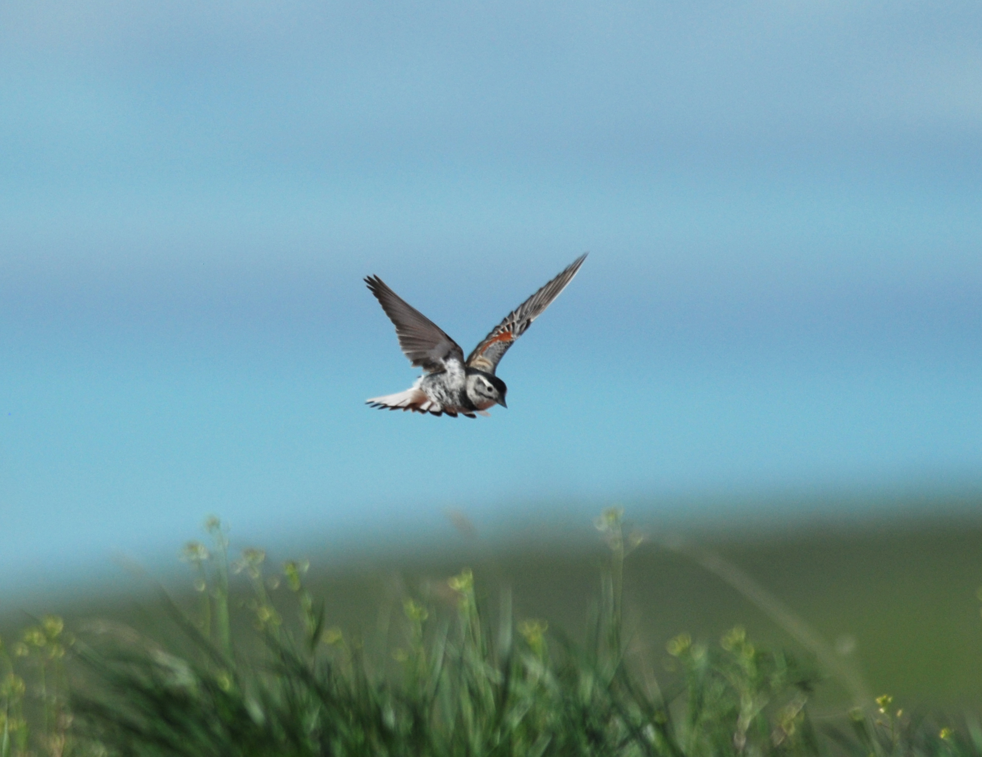 Thick-billed Longspur Rhynchophanes mccownii in southern Canada.